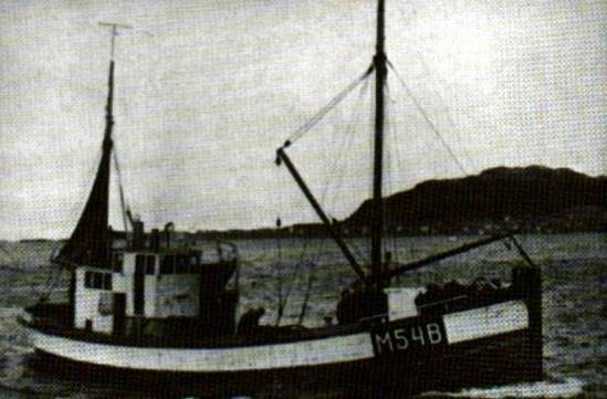 Harald II M 54 B